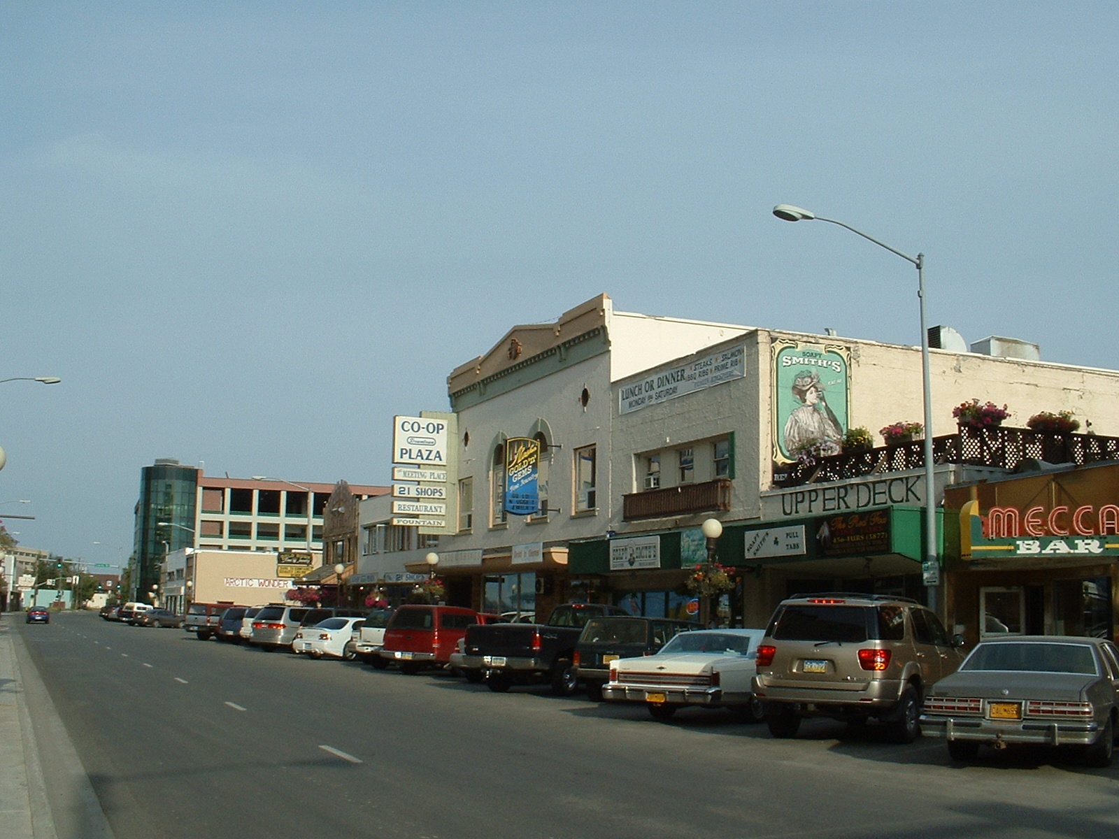 Co-op Plaza on 2nd Avenue, Fairbanks, AK